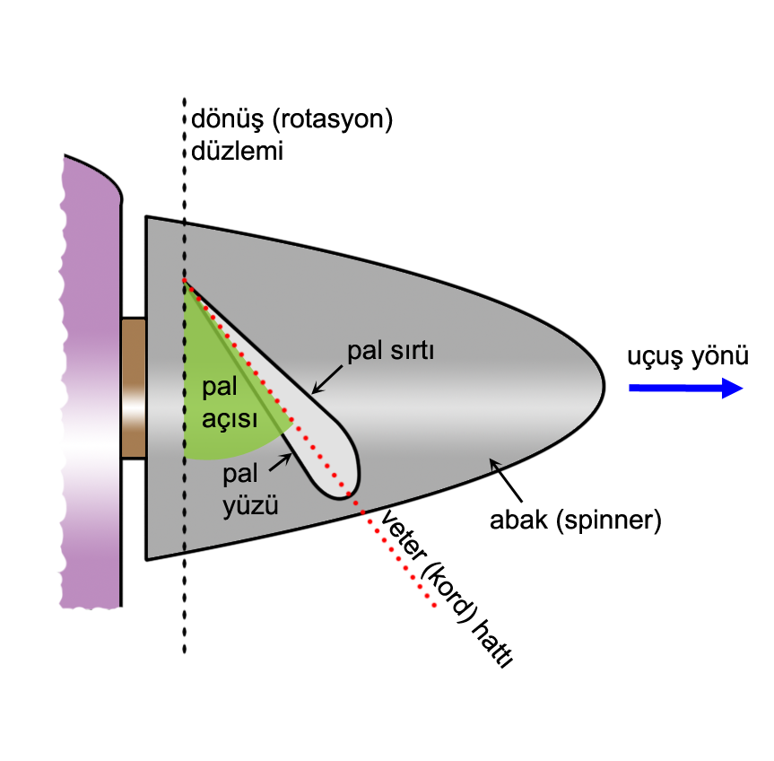 propeller (aviation) terminology